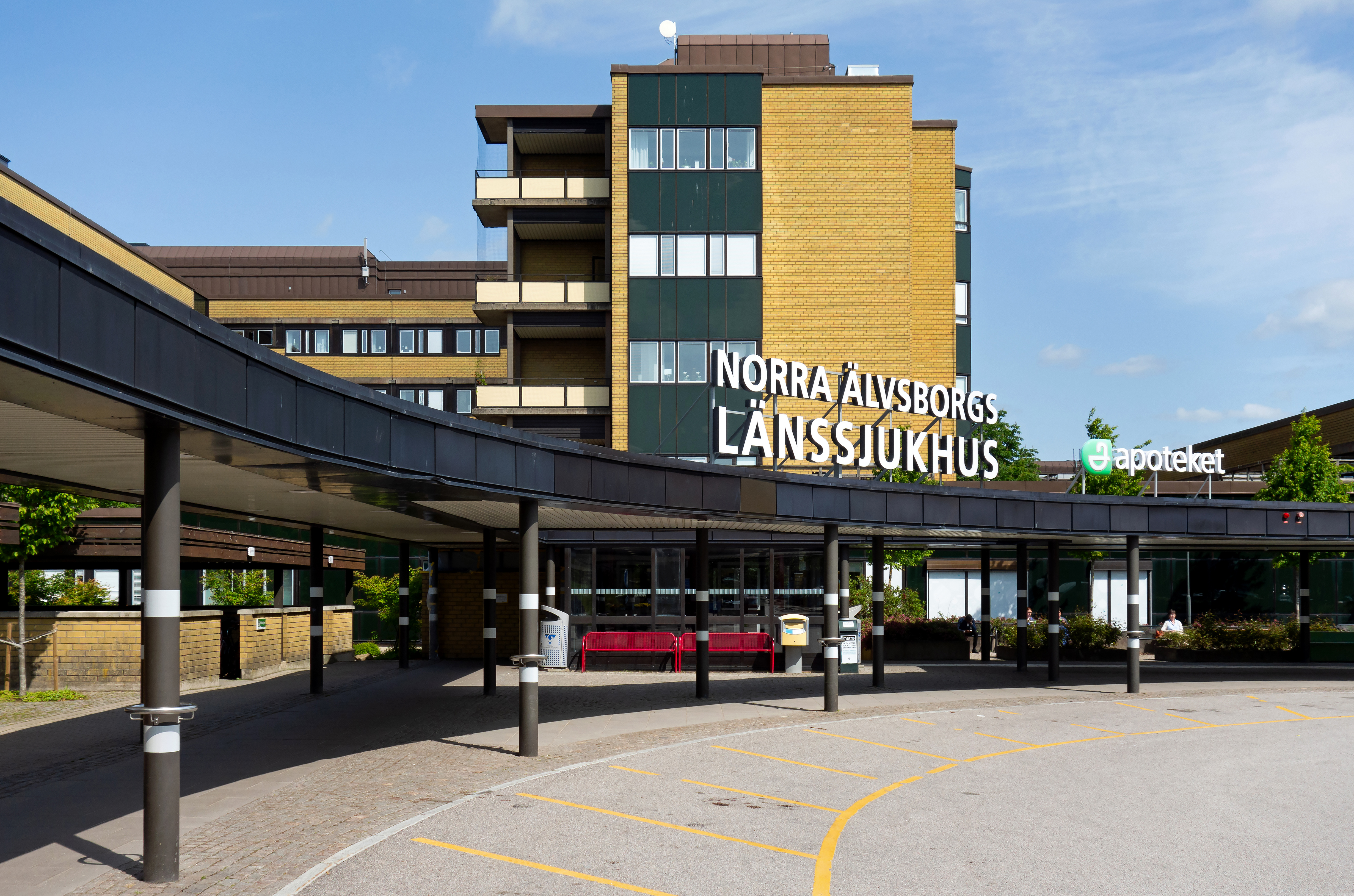 Main entrance at Norra Älvsborgs Länssjukhus (Northern Älvsborg county hospital) - NÄL, Trollhättan, Sweden.